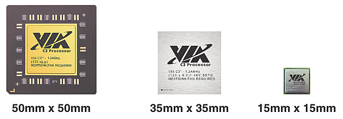 VIA leads the industry in shrinking the form factor, with a size reduction of over 80% in five years